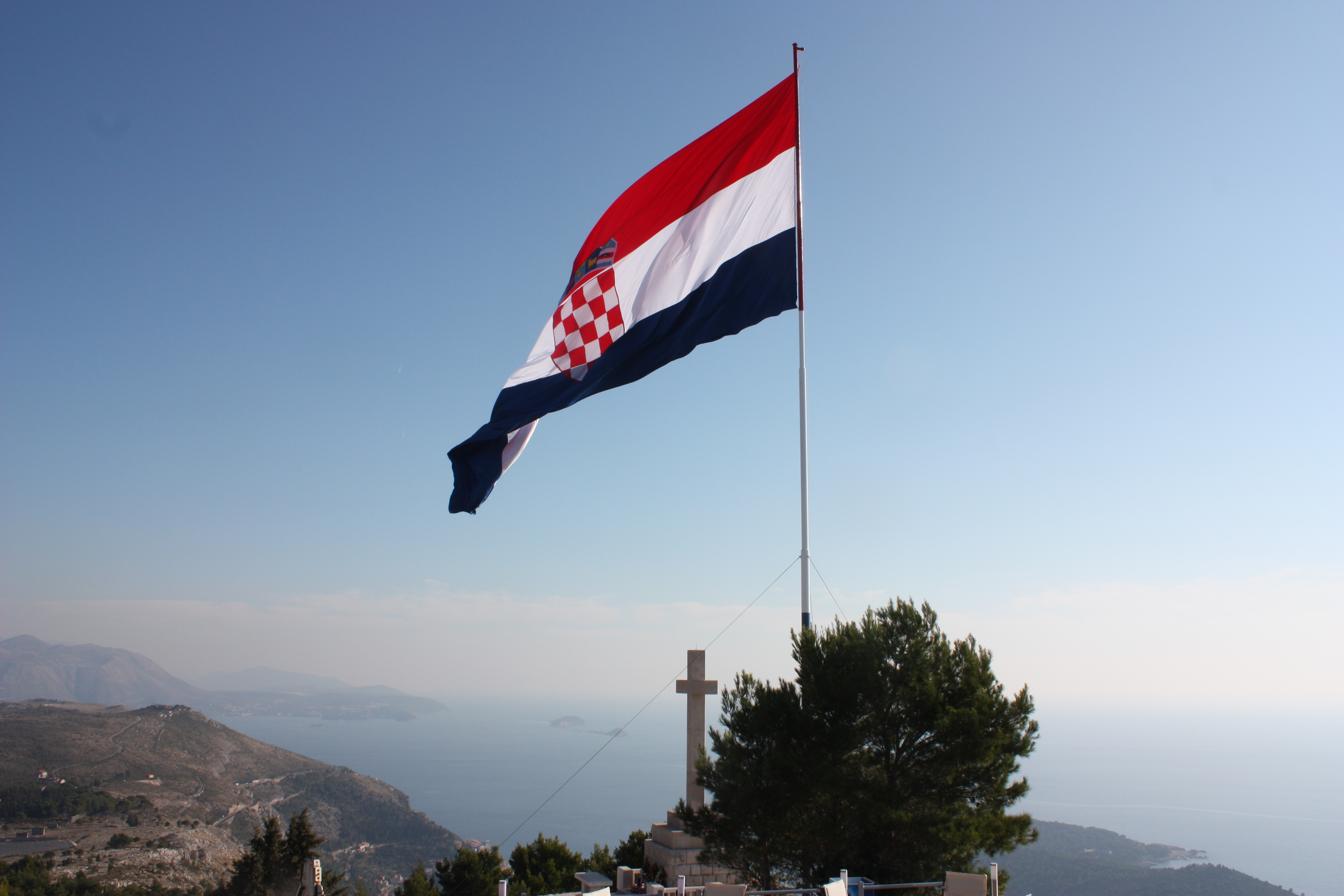 Croatian flag at hill Srđ